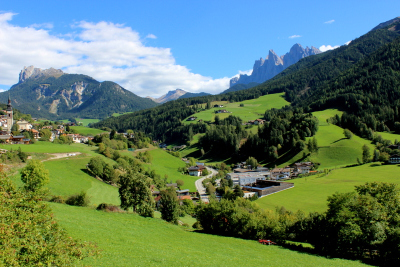 Landscape of South Tyrol in summer